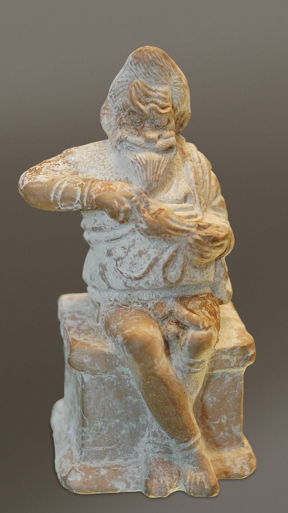 Actor playing the role of a slave sitting on an altar and emptying the purse he just stole. From Locris (?), made in Boeotia, ca. 400–375 BC.